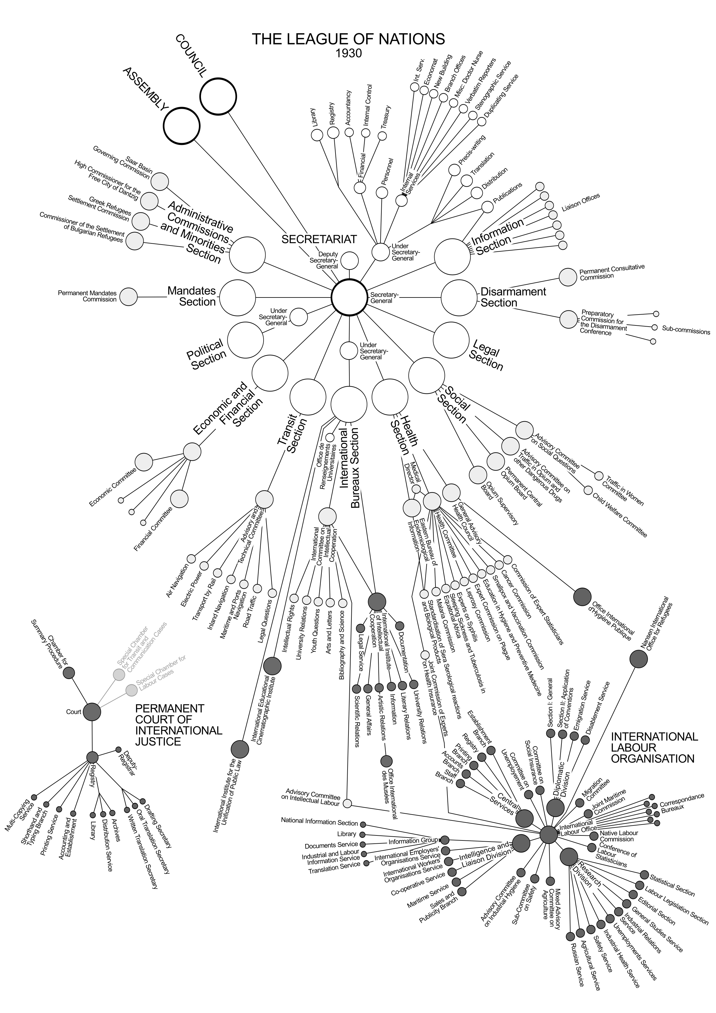 League of Nations organizational chart 1930. White = Secretariat; Gray = Advisory bodies; Dark gray = Third-party organizations. Grandjean, Martin (2017). "Complex structures and international organizations". Memoria e Ricerca (2): 371-393. French preprint (PDF) English summary (HTML)